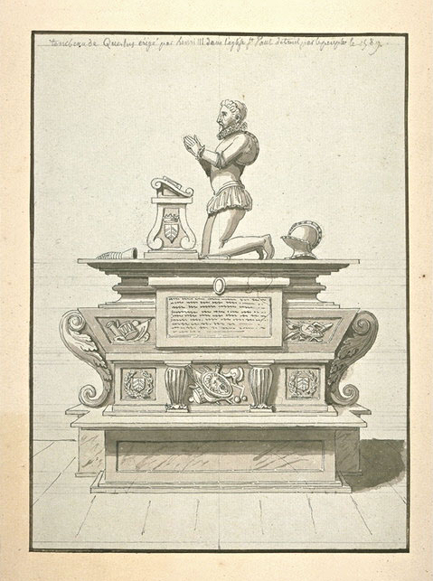 Tomb of Jacques de Lévis, comte de Caylus, Musée du Louvre, after an old drawing